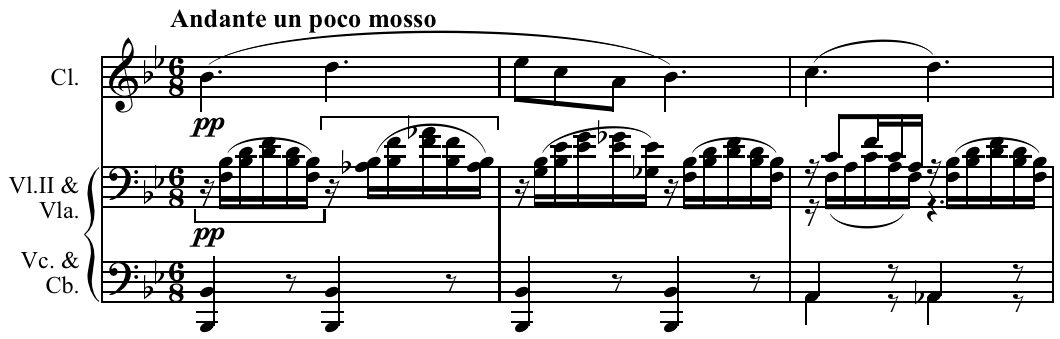 Figuration in Schubert's (1797–1828) Octet, Op. 166.